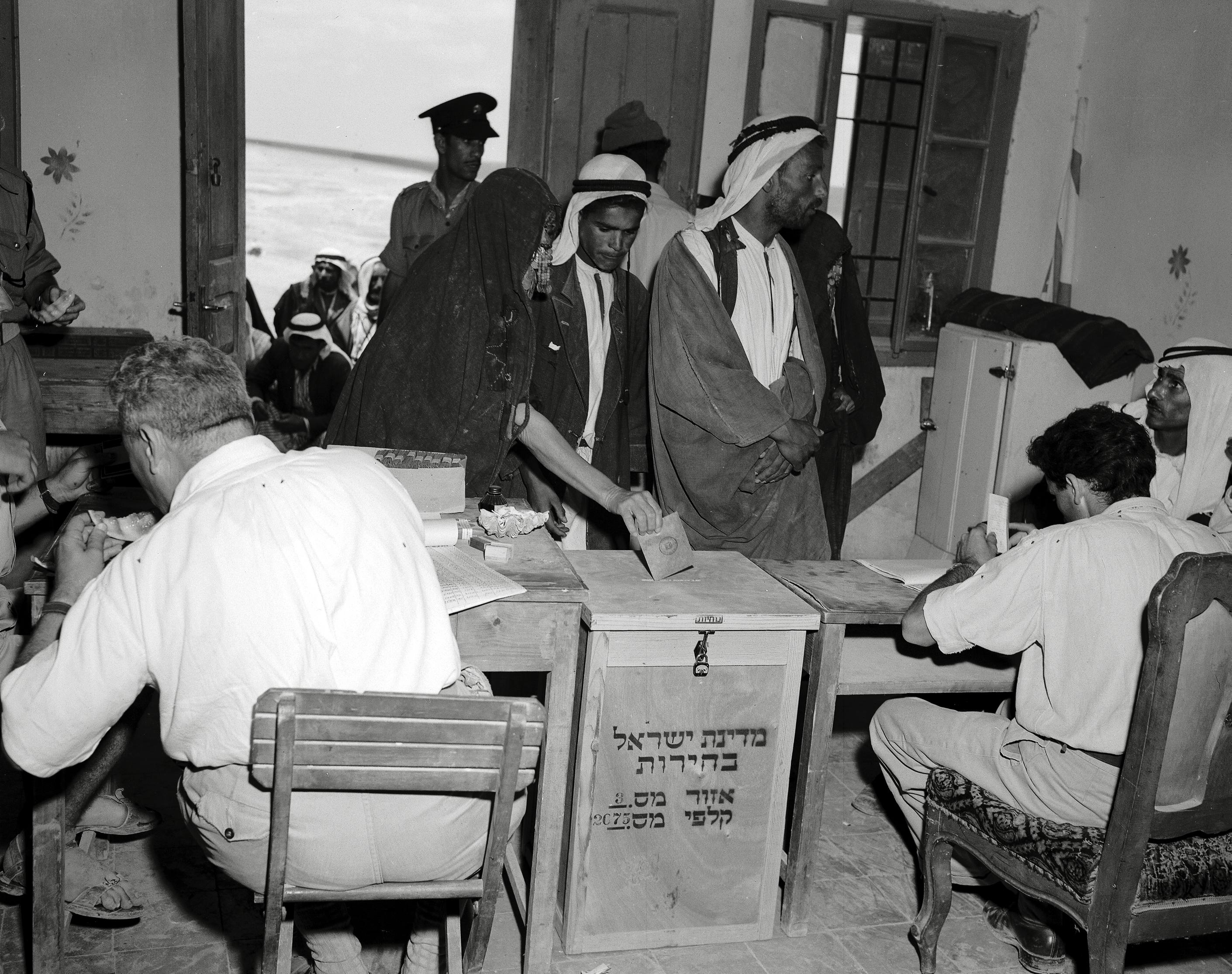 Beduin votes in 1951 Israeli elections